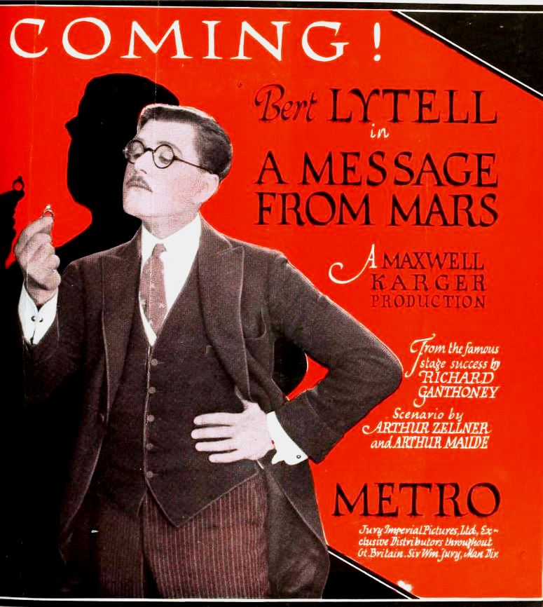 Ad for the American film A Message from Mars (1921) with Bert Lytell, on the cover of the March 20, 1921 Film Daily.